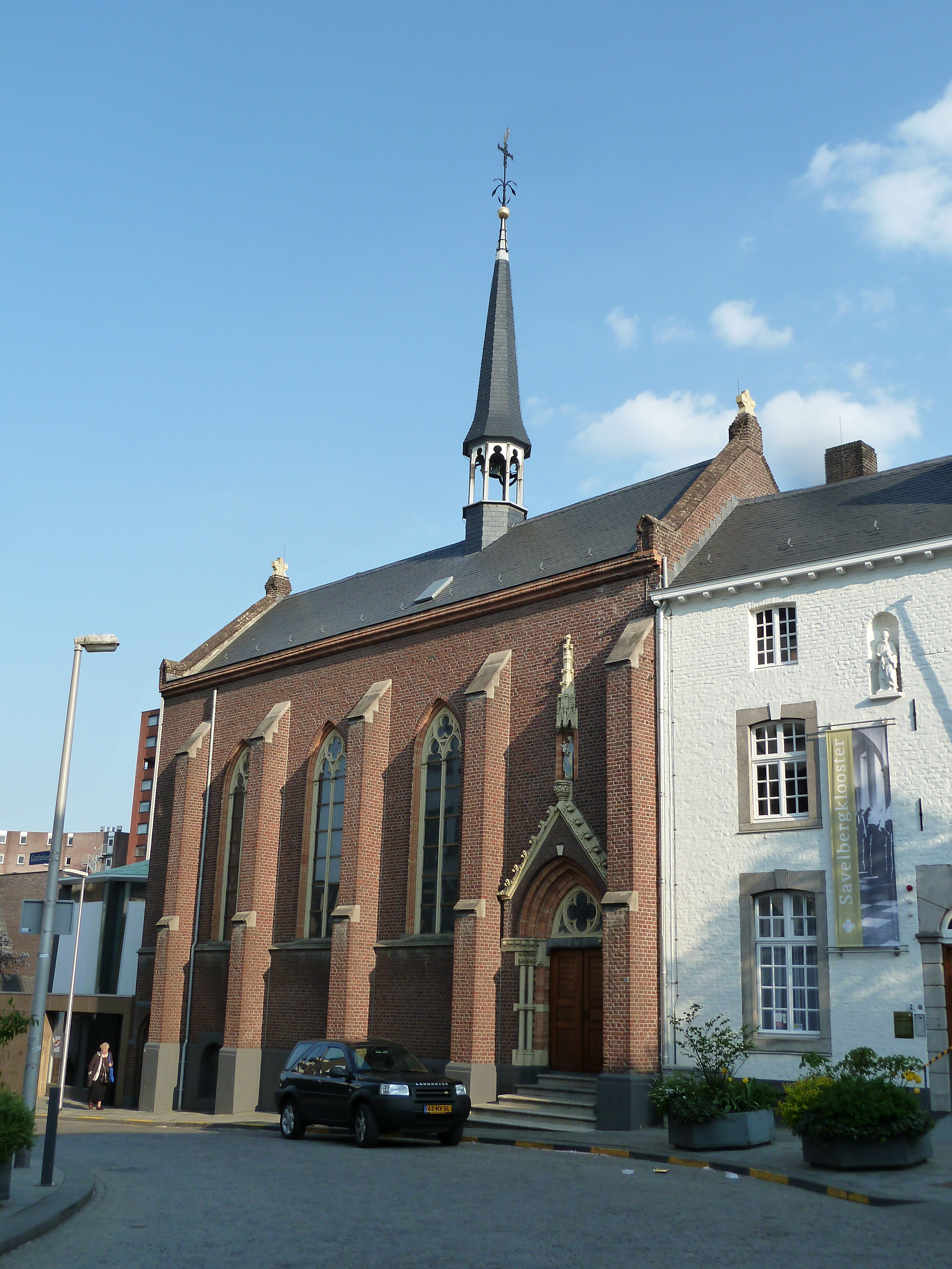 Gasthuisstraat 2a, Heerlen, Limburg, the Netherlands